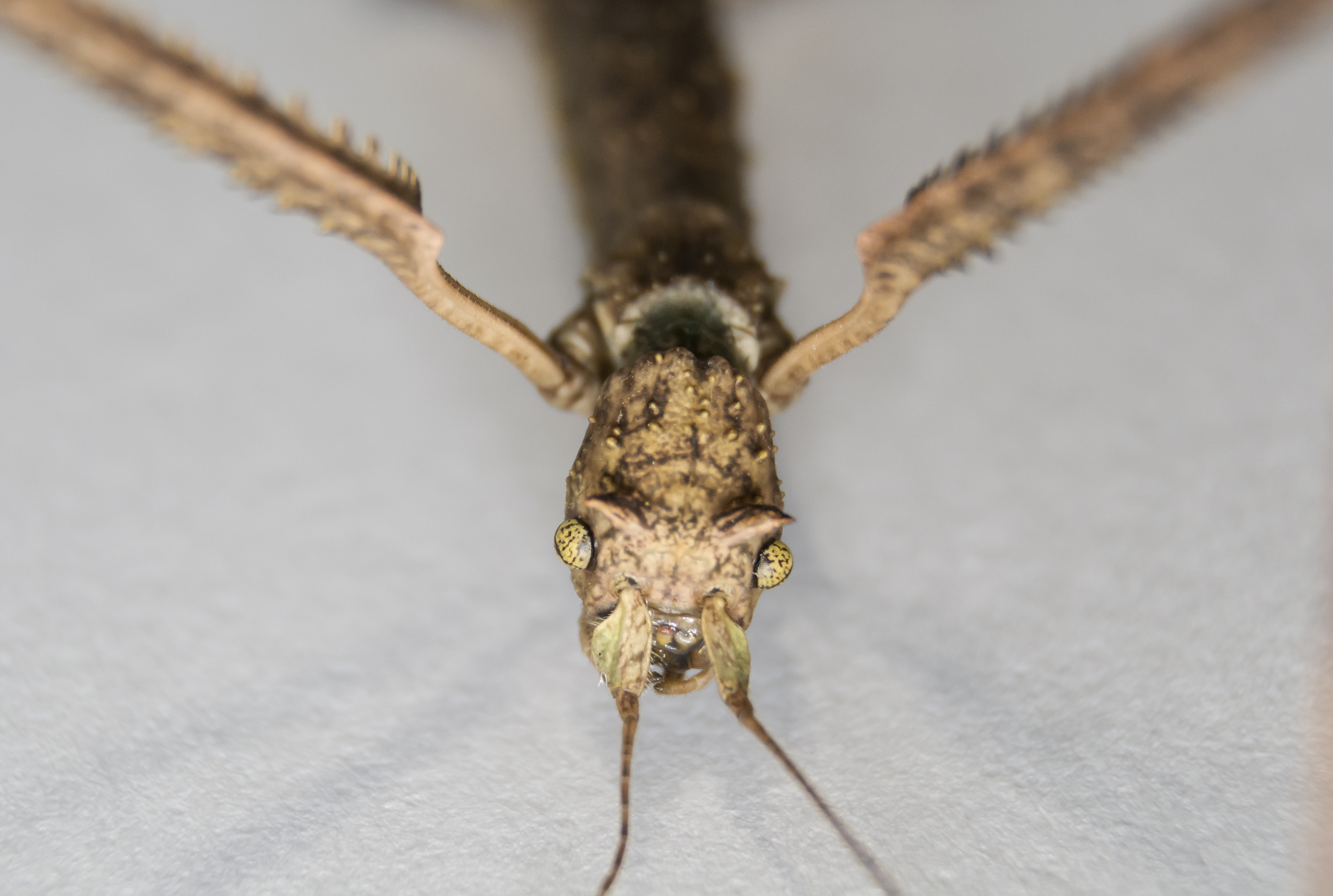 Annam walking stick (Medauroidea extradentata) (female)